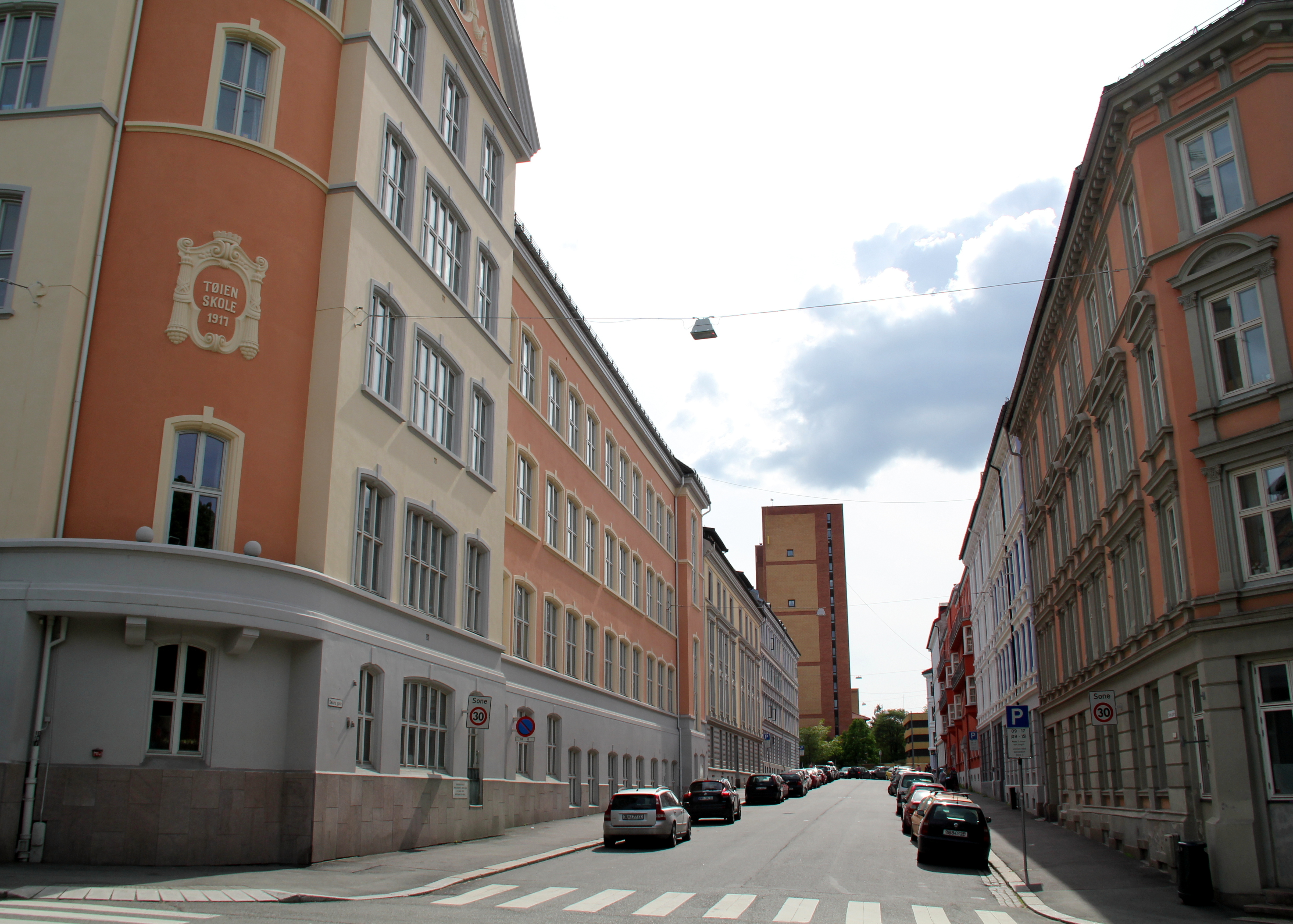 Tøyen elementary school